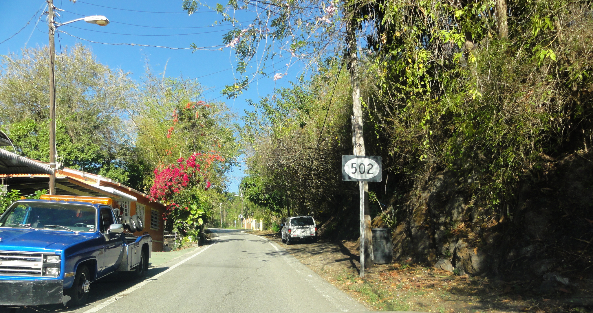 A street scene in Barrio Marueño (PR-502 SB just south of its northern terminus), Ponce, Puerto Rico